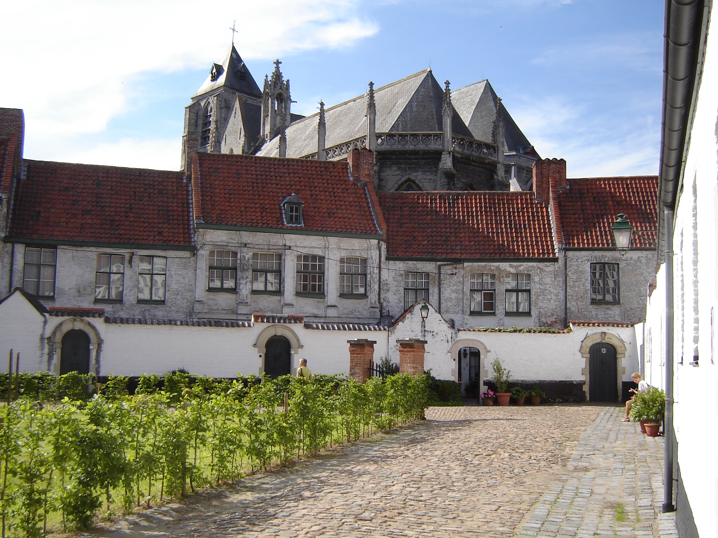 Saint-Elisabeth Beguinage: bleaching meadow (left) and church of Our Lady in Kortrijk, West Flanders, Belgium